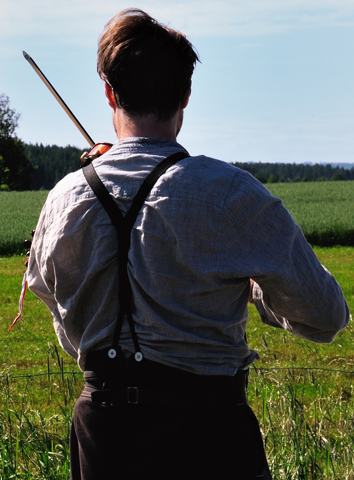 Fiddler, traditional Swedish fiddler, Delsbo